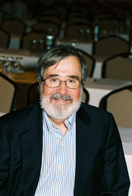 FLoC 2006: Edmund Clarke